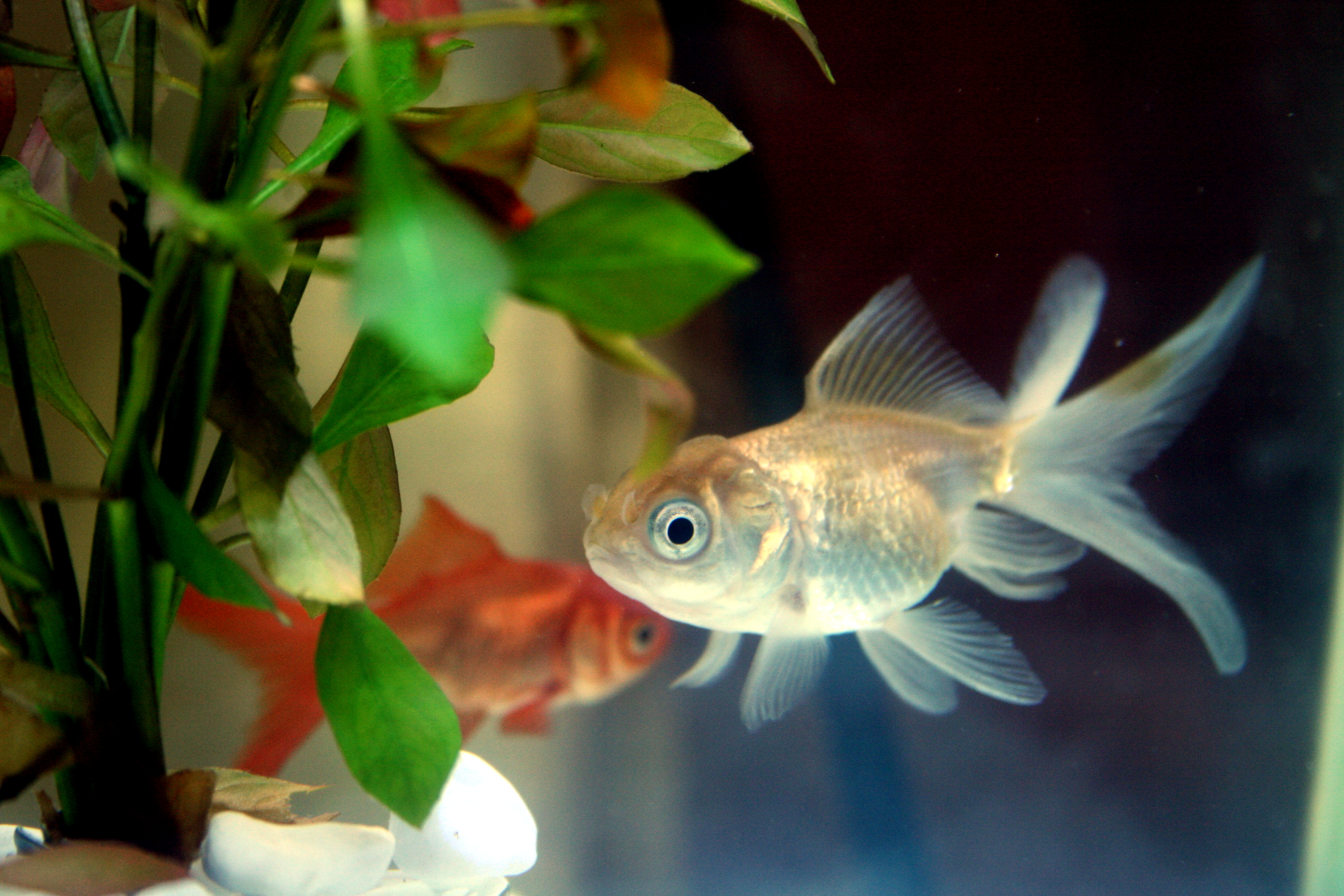 Baby Blue Oranda and Chocolate fantail in an aquarium